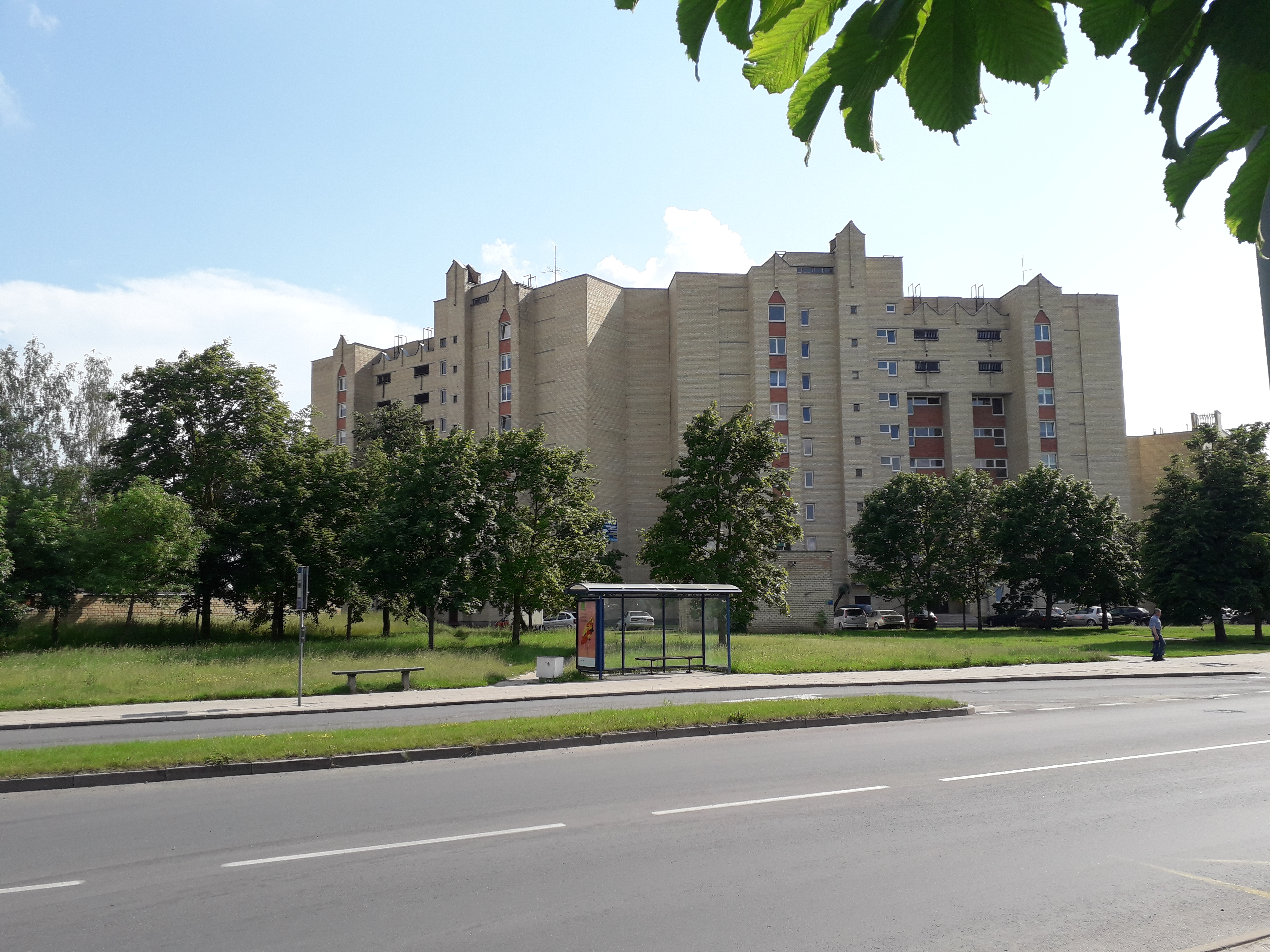 Kniaudiškių street in Panevėžys